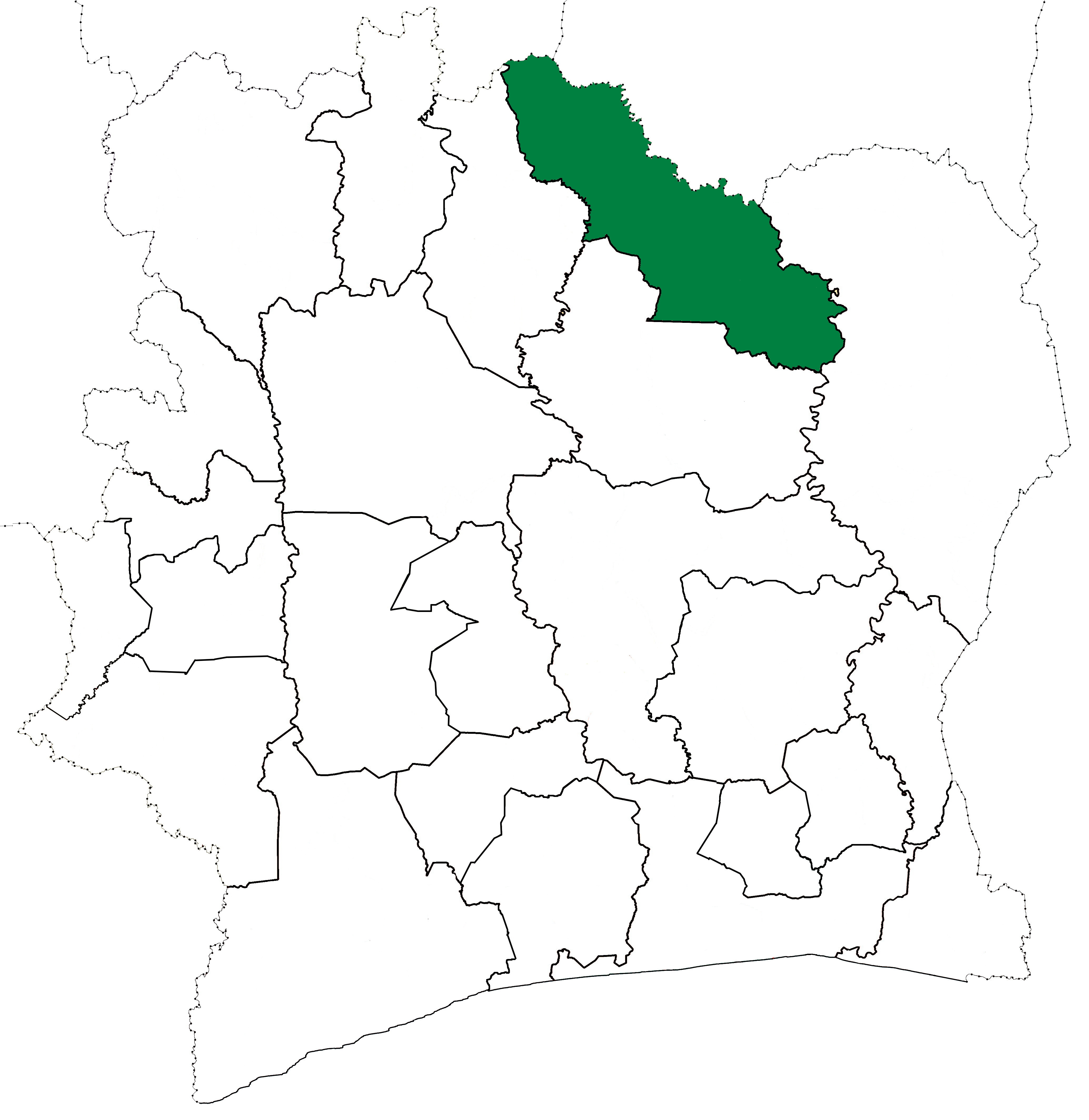 Locator map for Ferkessédougou Department in Côte d'Ivoire when the 24 new departments were created in 1969. Ferkessédougou Department kept these boundaries until 2005, but other departments began to be divided in 1974.